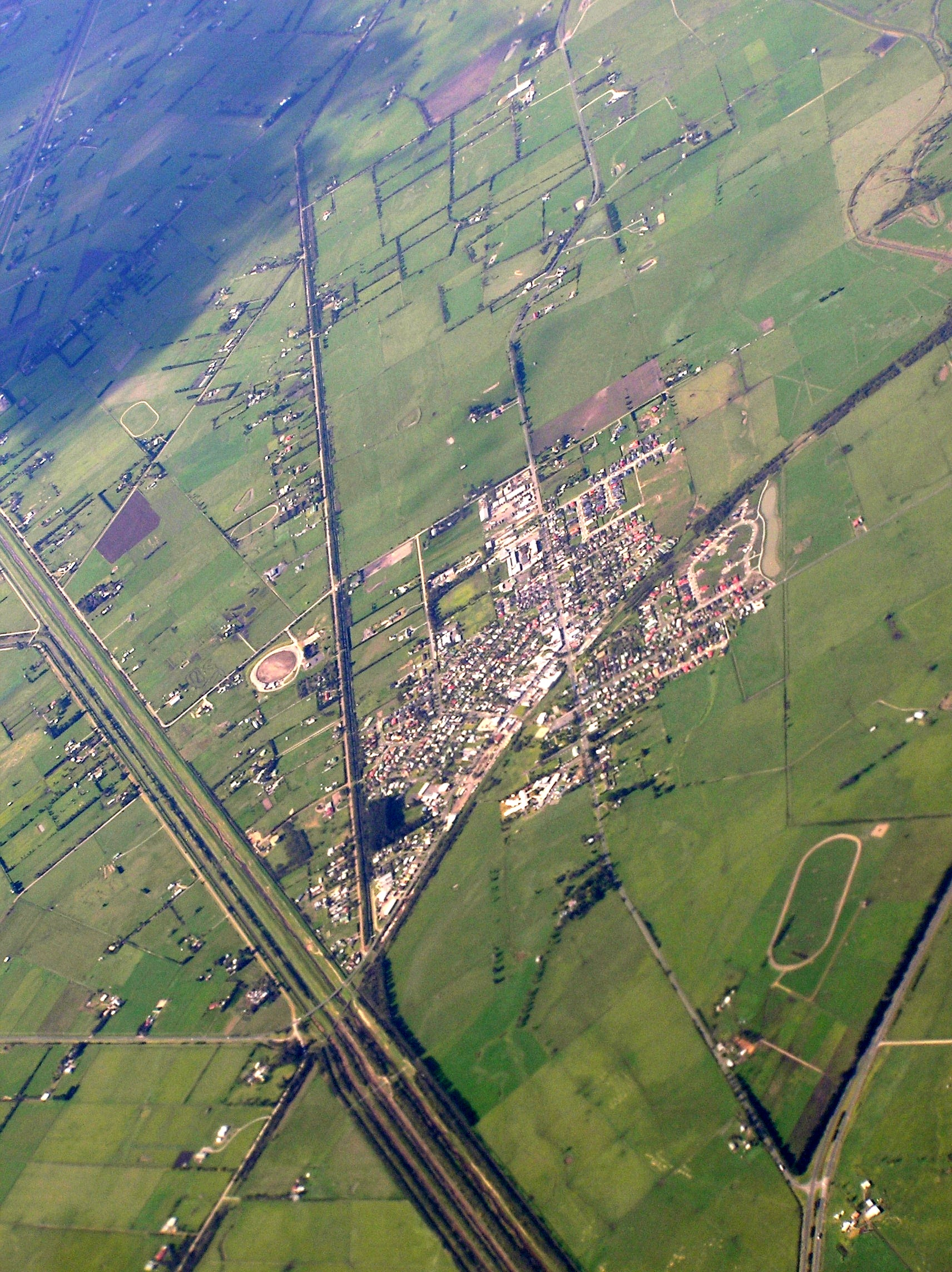 Aerial photo of Kooweerup Victoria Australia